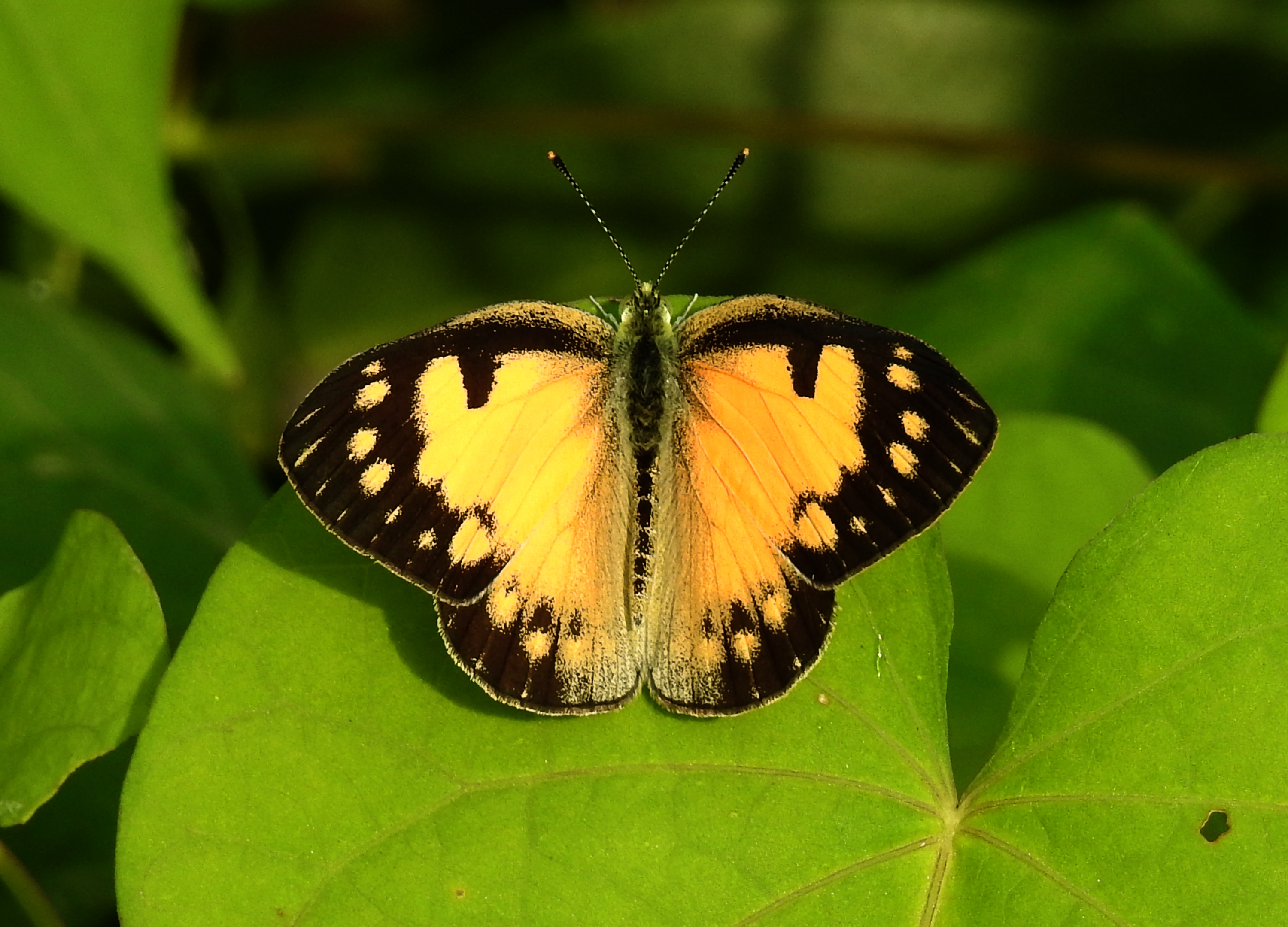 Small Salmon Arab Colotis amata. Photo taken by Dr. Raju Kasambe in Mumbai area, Maharashtra.